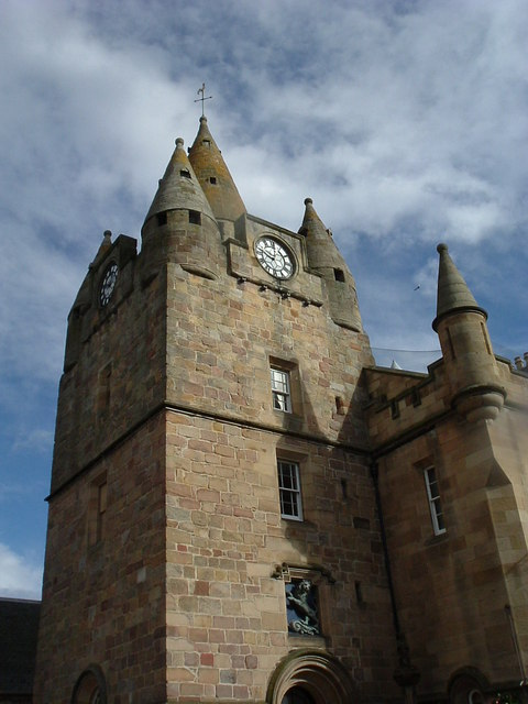 Tain Original description: Tollbooth clock tower, Tain